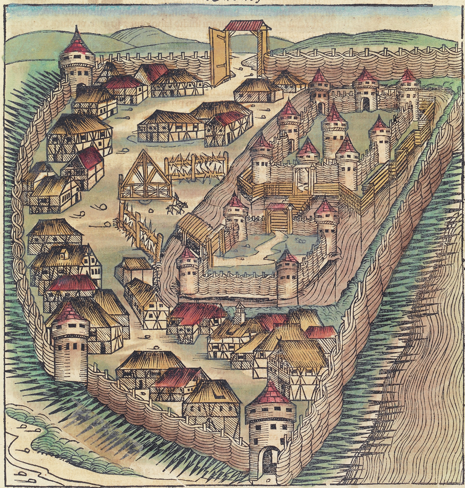 Woodcut from the Nuremberg Chronicle (Latin copy in Sao Paulo)